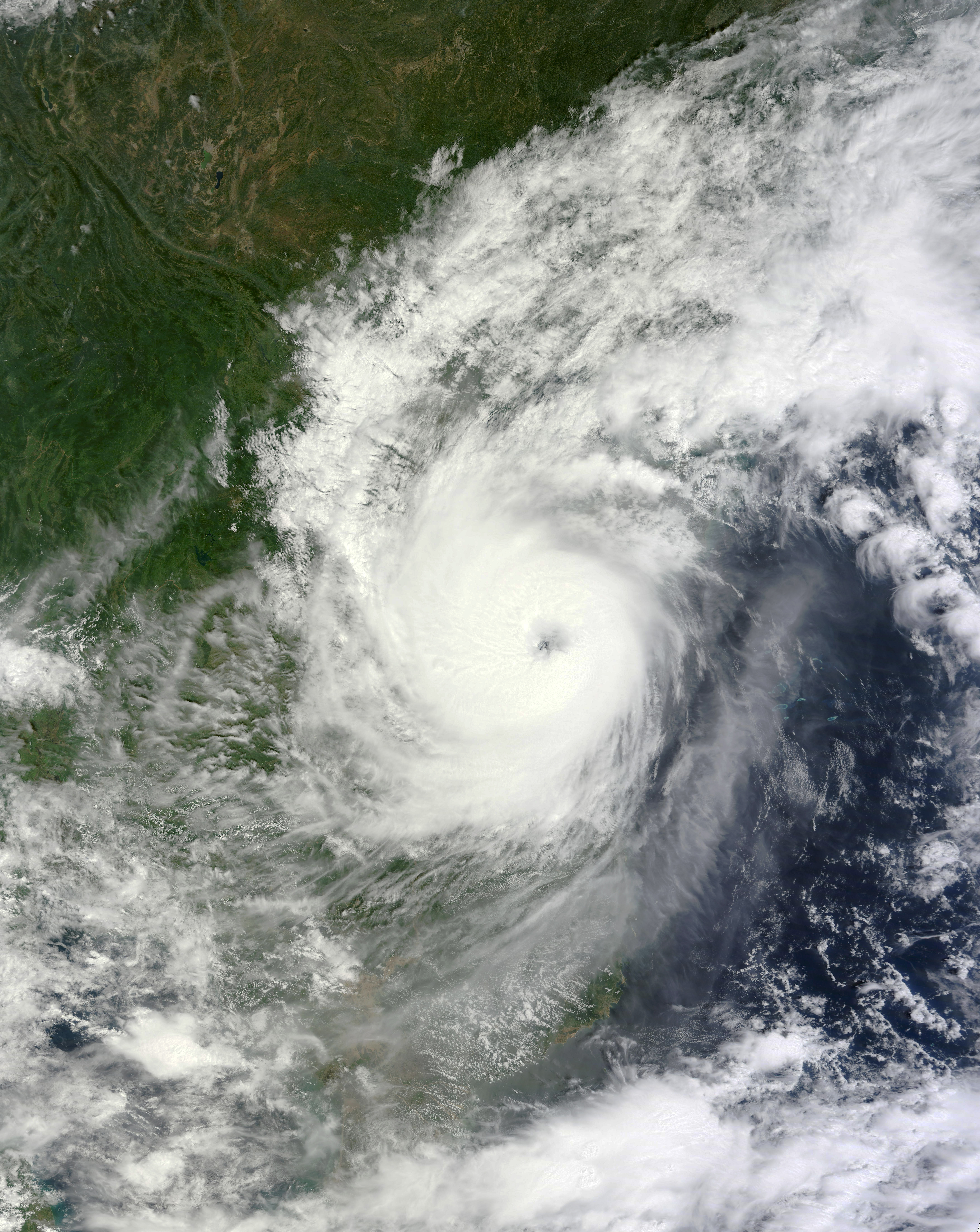 Typhoon Wutip nearing landfall over Indochina as a category 2 typhoon on September 30, 2013